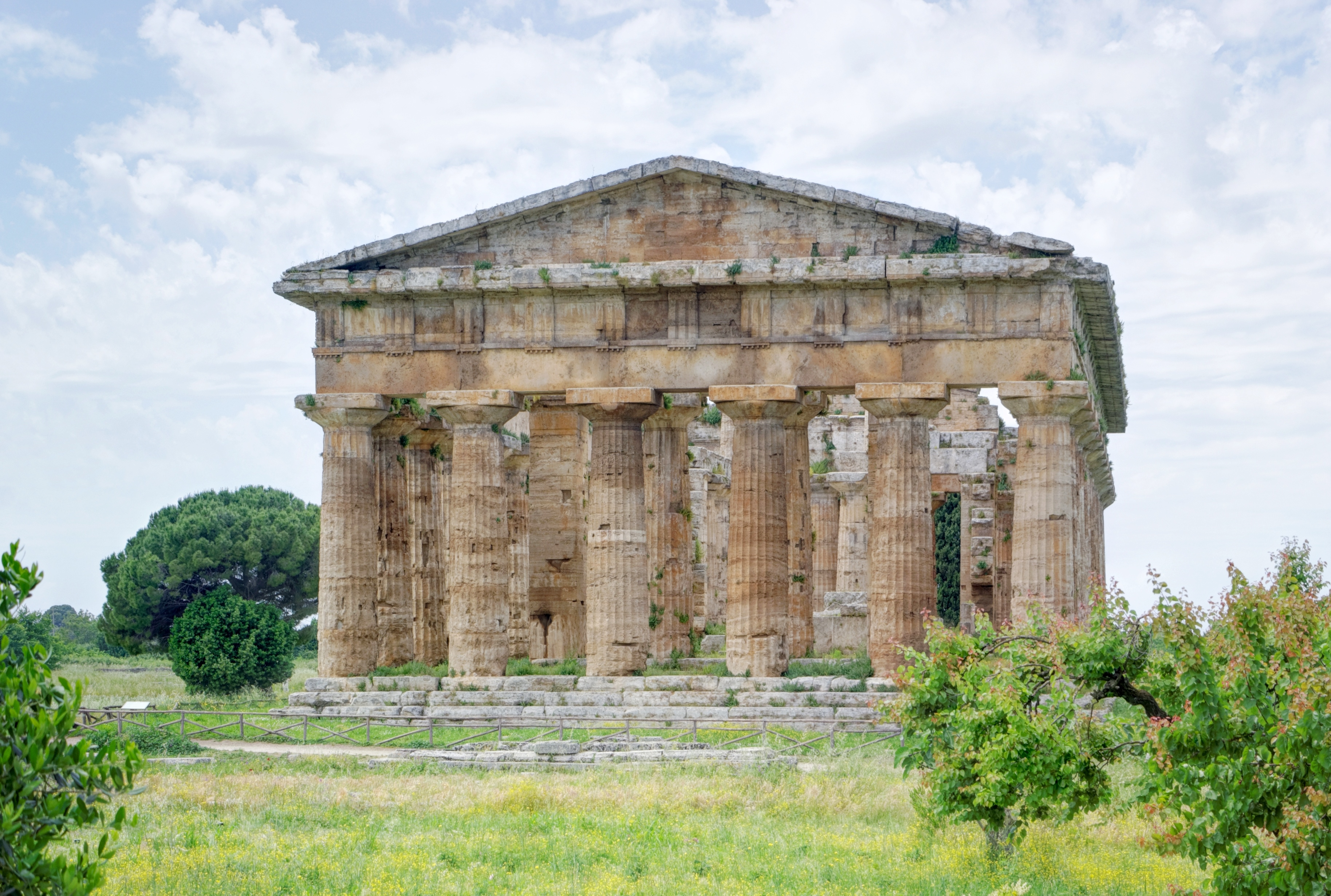 Italy, Paestum, Temple of Hera II (sometimes called the Temple of Neptune)